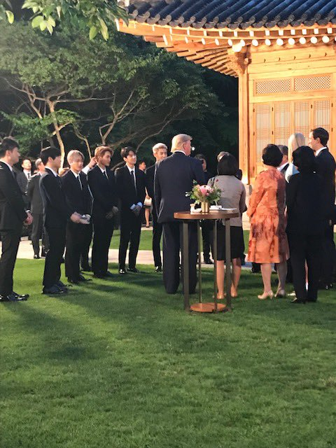 At Blue House Donald, Ivanka Trump and Jared Kushner greeted by Moon Jae-in and K-Pop boy band Exo.